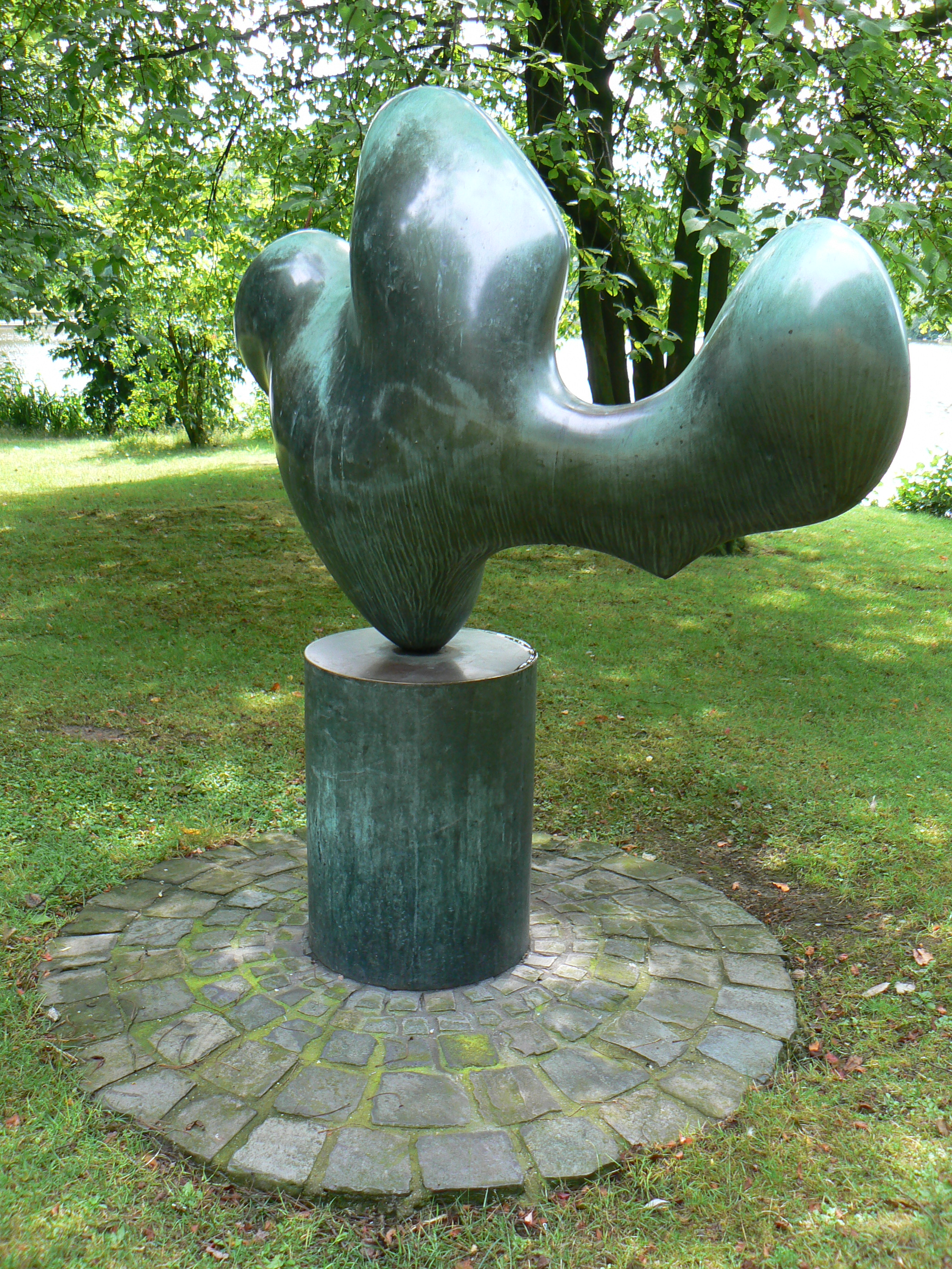 Location: City Center Marl/Germany Collection: Skulpturenmuseum Glaskasten Sculpture: Feuille se reposant - 2/3 (1959) Sculptor: Hans Jean Arp.